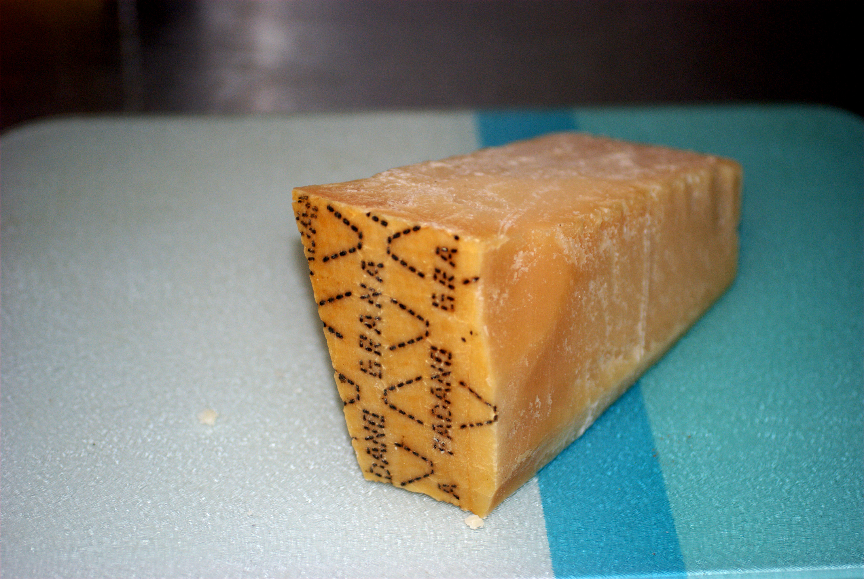 A slice of Grana Padano Cheese as available in italian supermarkets